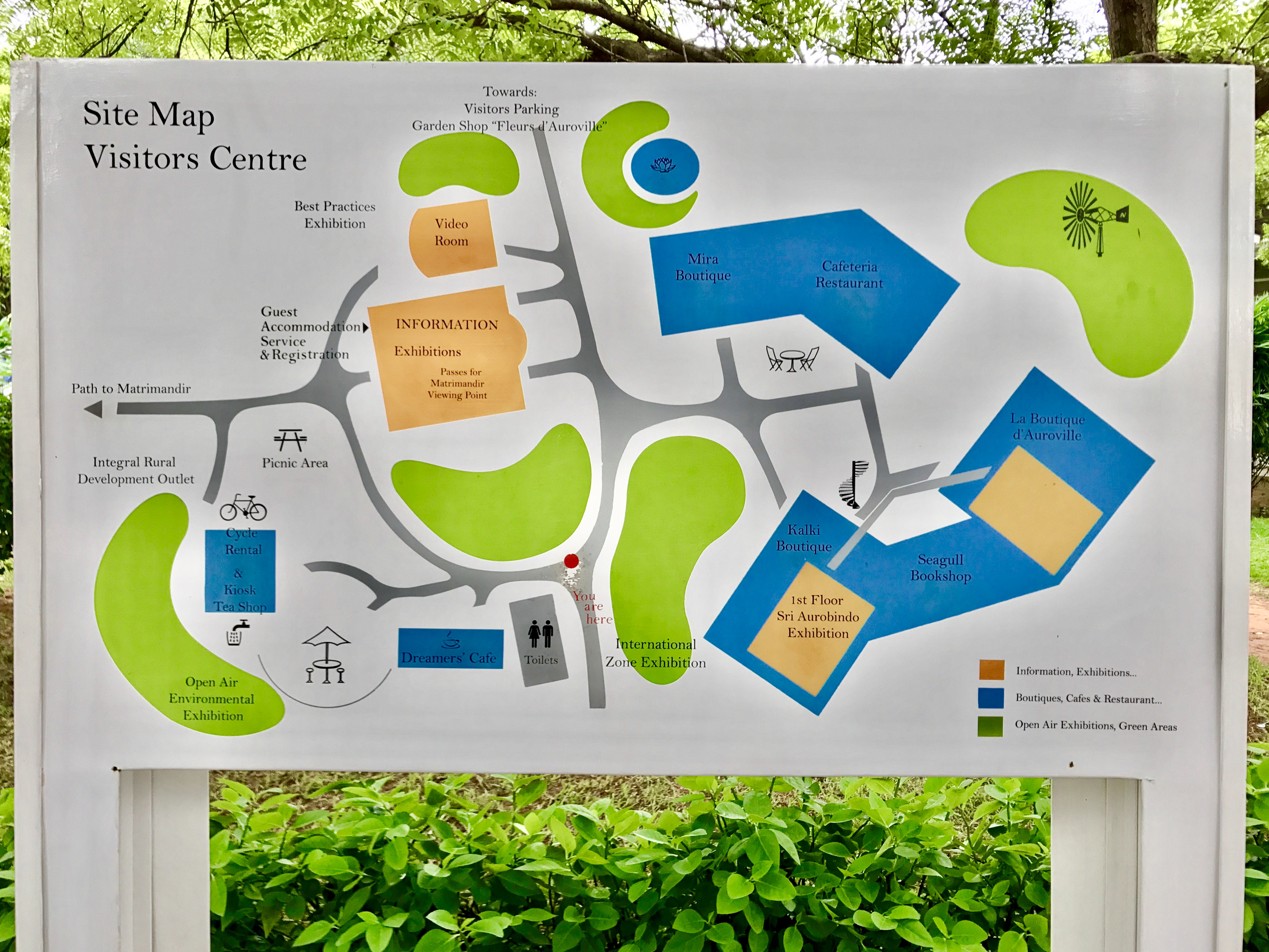 Auroville Township Map